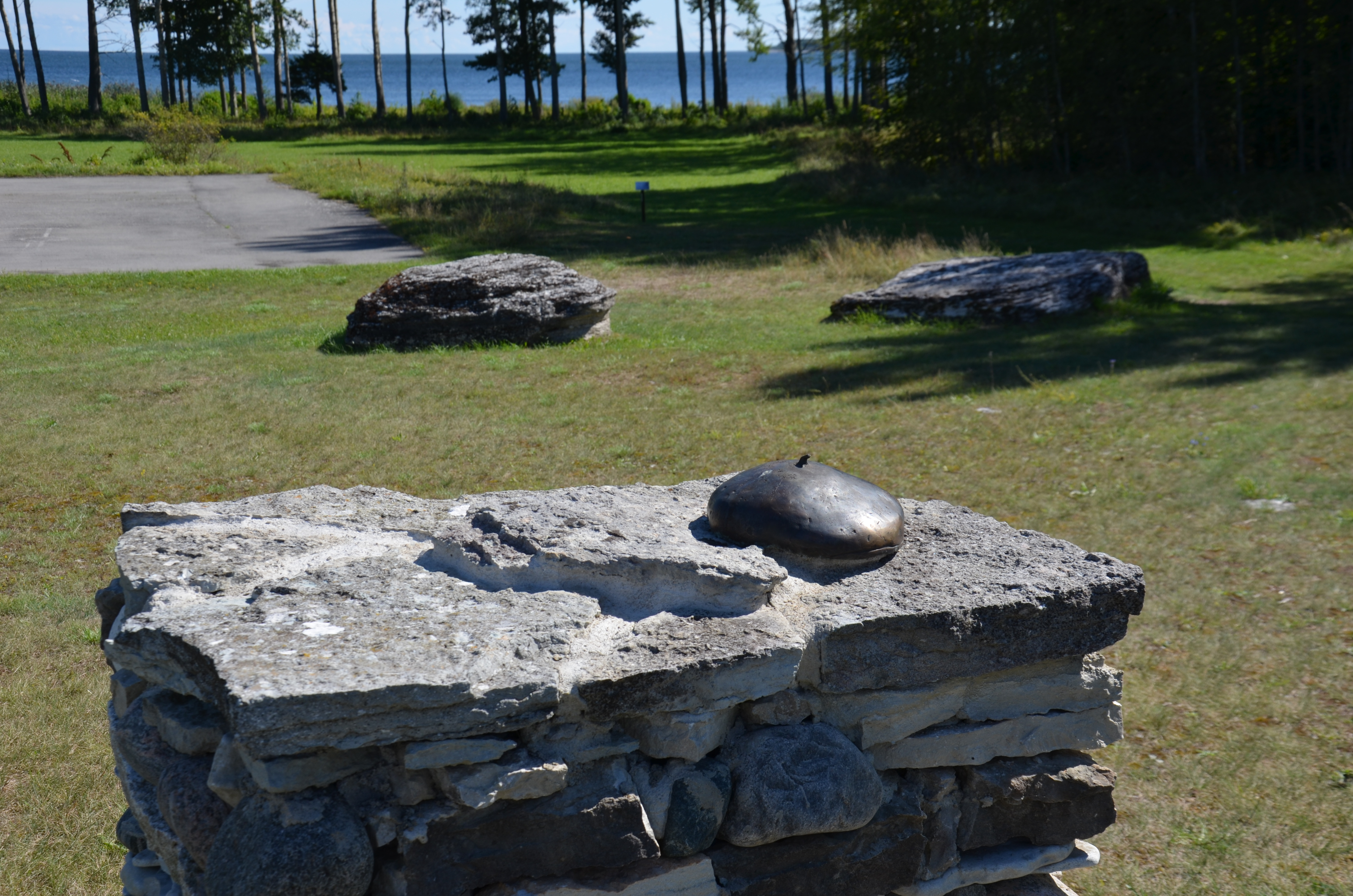 Bergmans närvaro av Kaj Engström vid Bergmancenter på Fårö